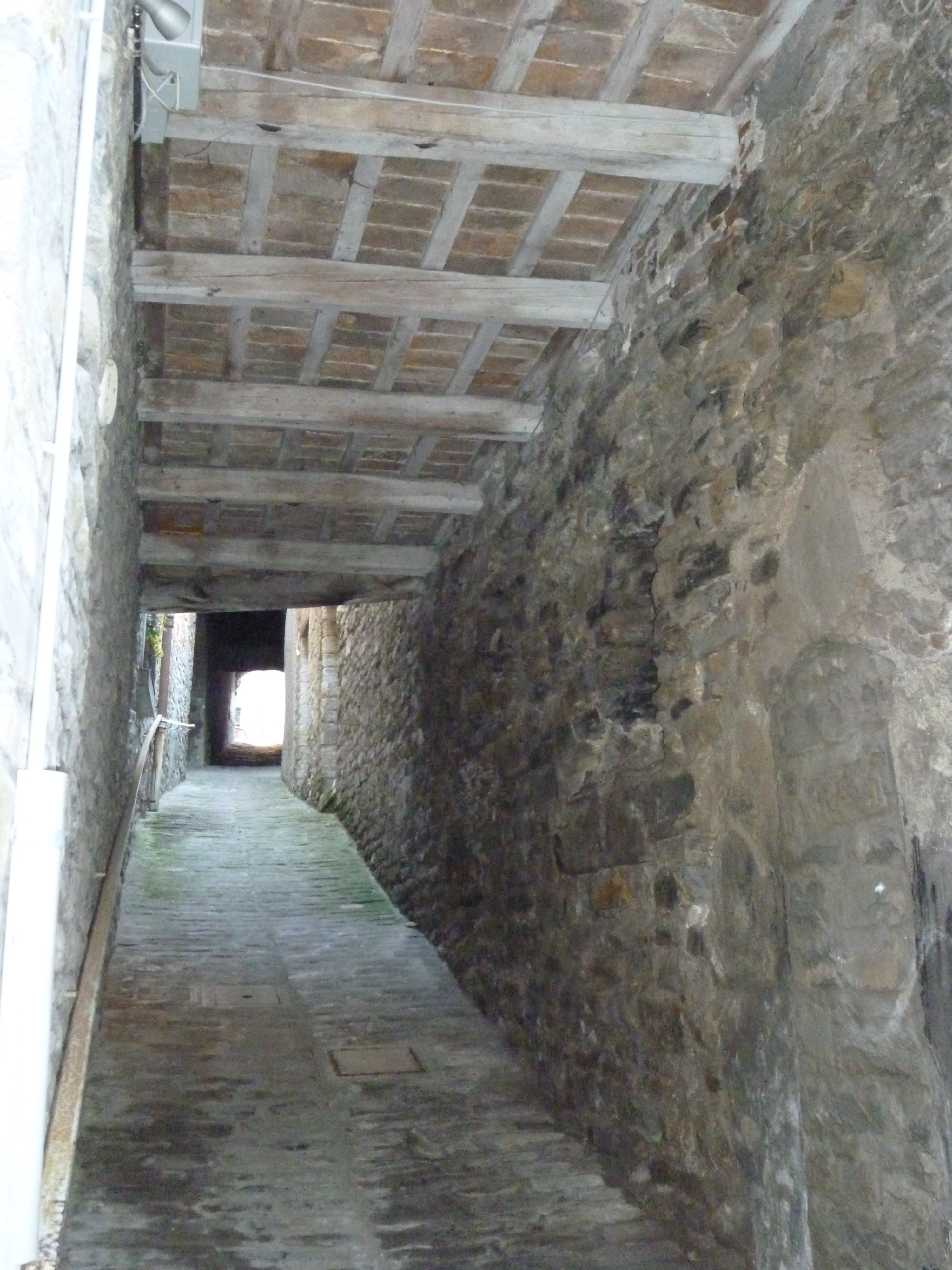 Alley in Portico di Romagna, in the province of Forlì-Cesena, Emilia-Romagna